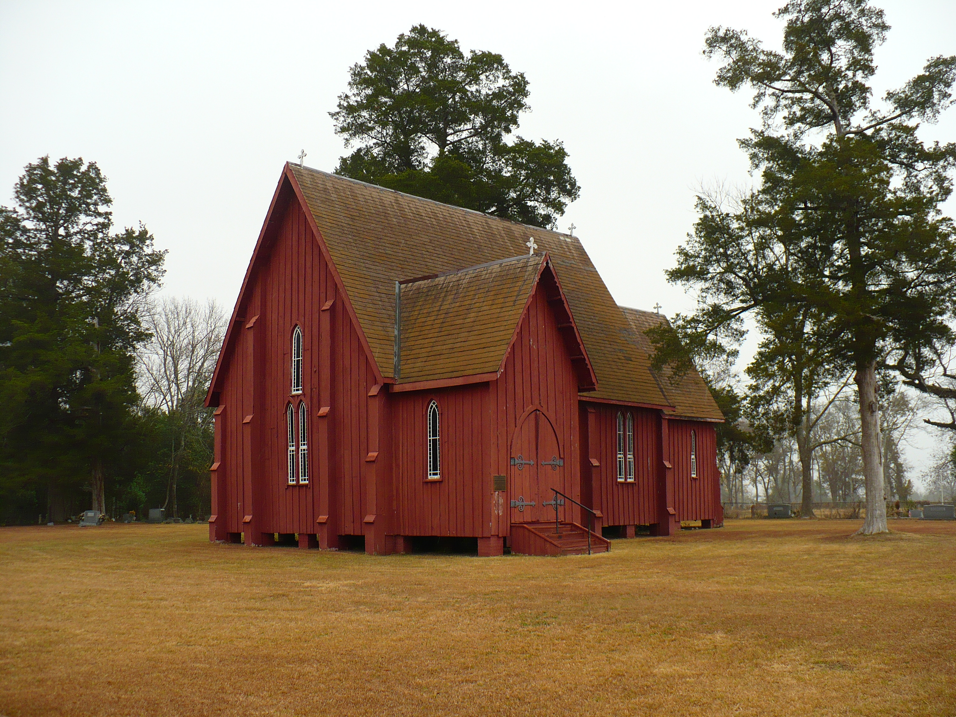 St. Andrew's Episcopal Church in Prairieville, Alabama